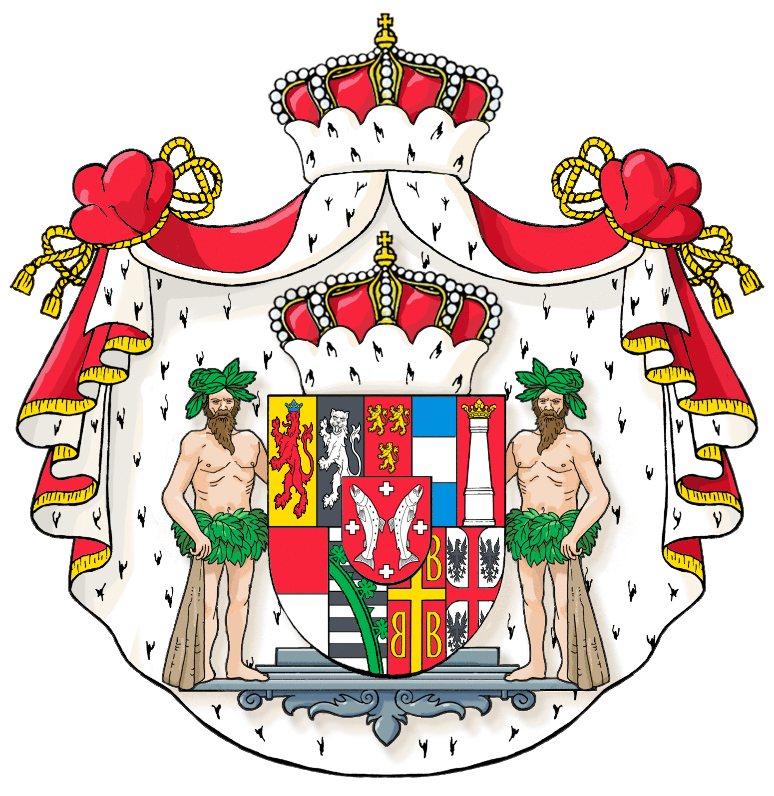 Coat arms of Family Salm